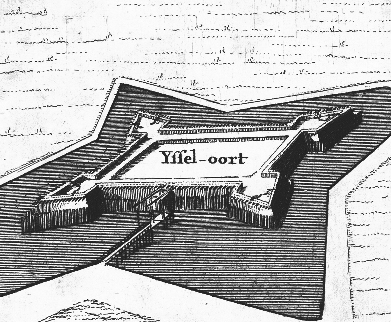 Fort IJsseloord at Arnhem, Netherlands